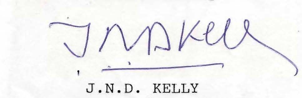 John Kelly's signature on a letter addressed to myself